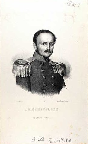 Jens Bergendahl Schepelern (1801-1864), Danish army officer